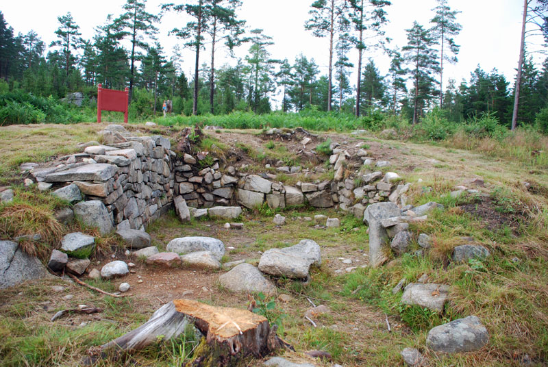 Snarsmon, Tanum, Sweden. Part of old house